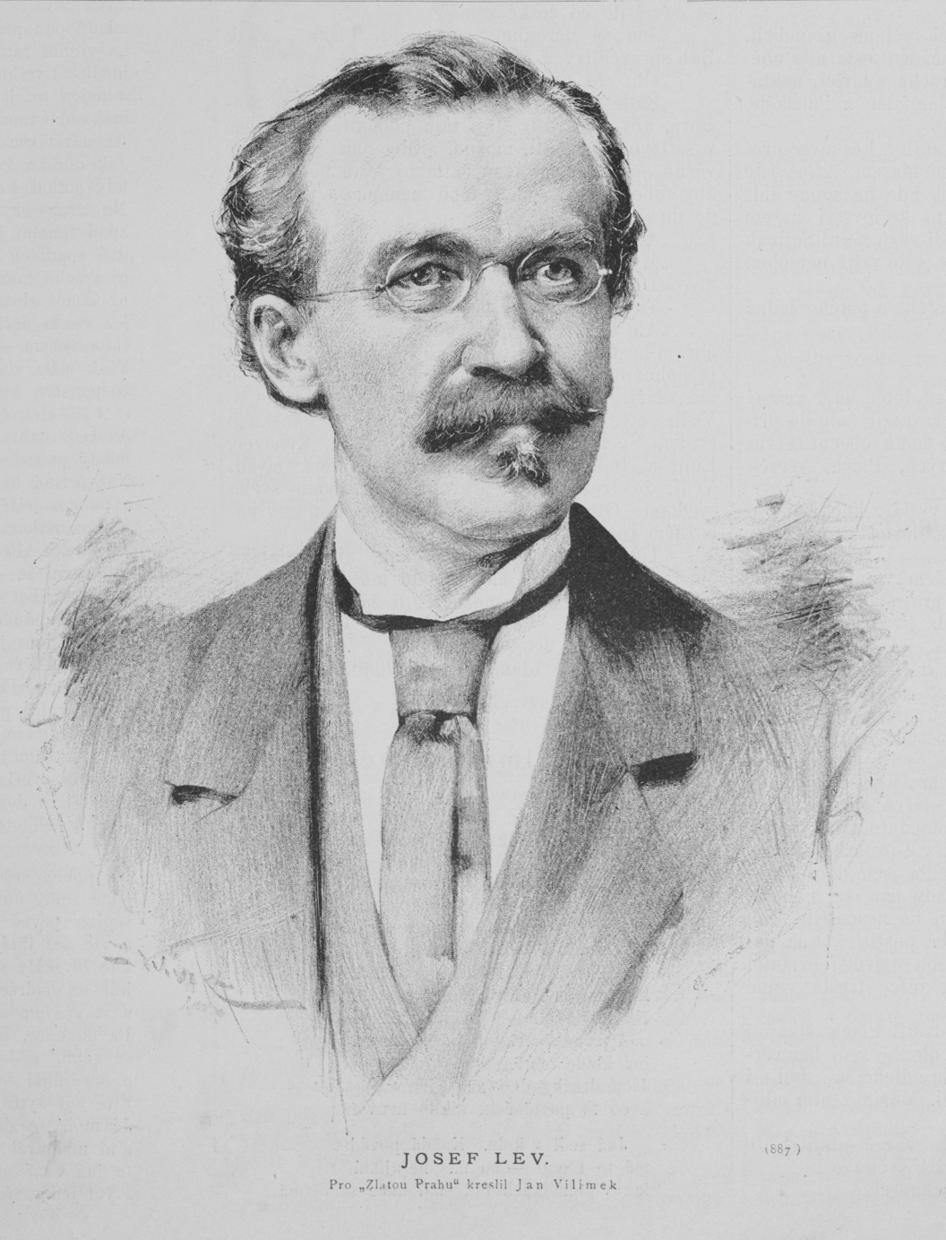 Portrait of Josef Lev (1832-1898), Czech opera singer